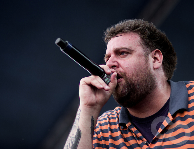 Rapper and producer Rob Sonic performing live in 2012